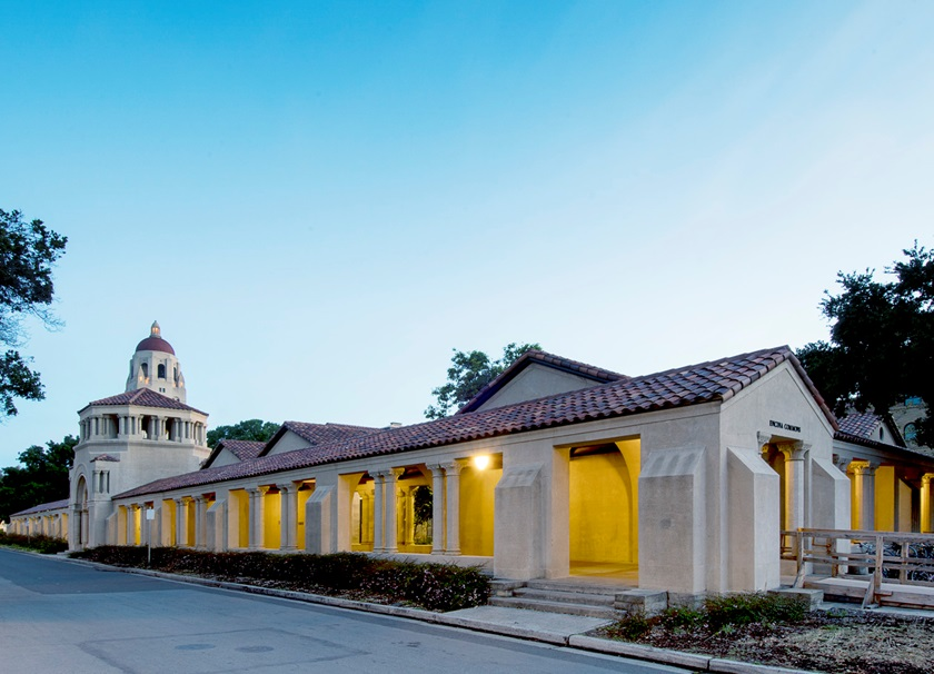 Encina Commons, with Hoover tower visible in the background